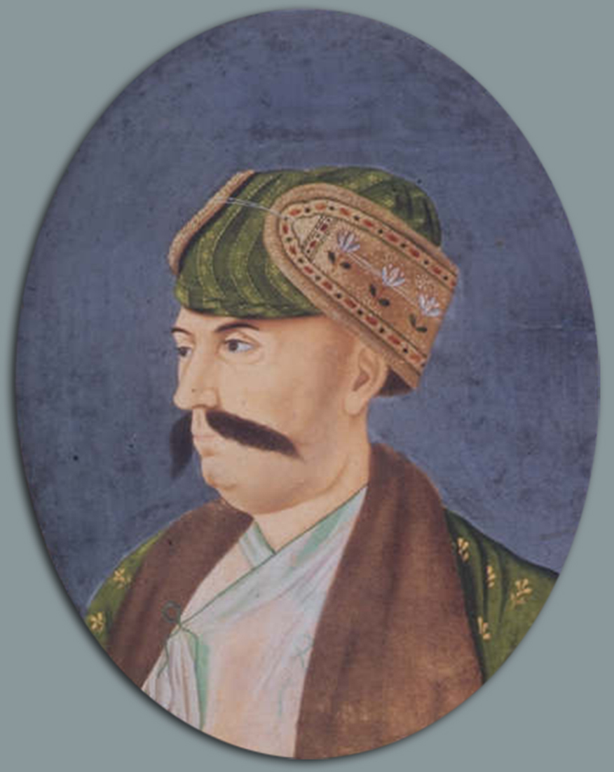 Nawab of Oudh Shuja-ud Daulah . Ruler of a Kinggdom that last almost a century and a half and played a crucial role in the Battle of Panipat (1761) and the Battle of Buxar.